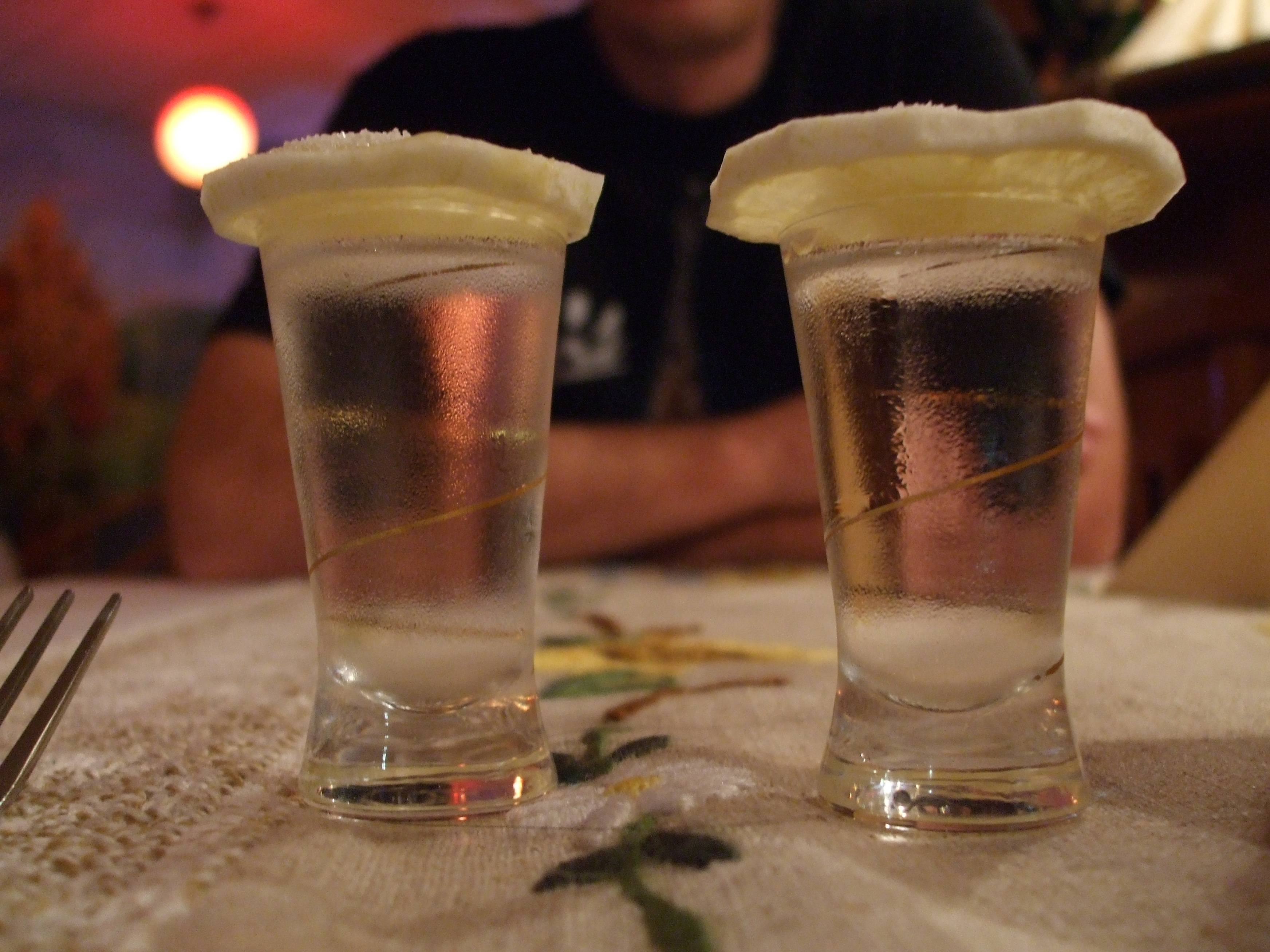 Shot glasses with vodka and lemon